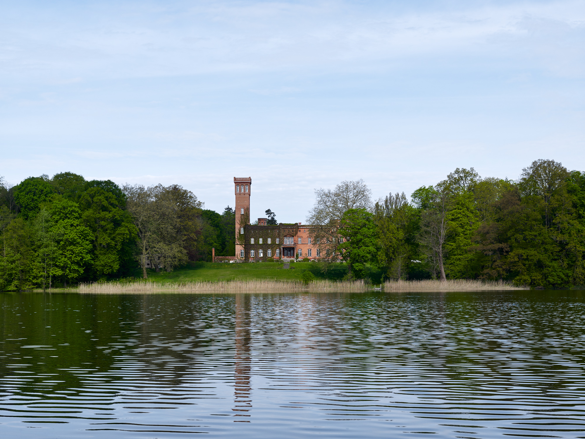 Schloss Arendsee in the Uckermark